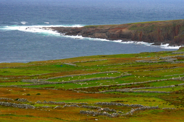 Brinlack - Hillside with stone walls & Bloody Foreland This photo was taken from R257 with a camera that has a 432mm zoom lens and image stabilization.